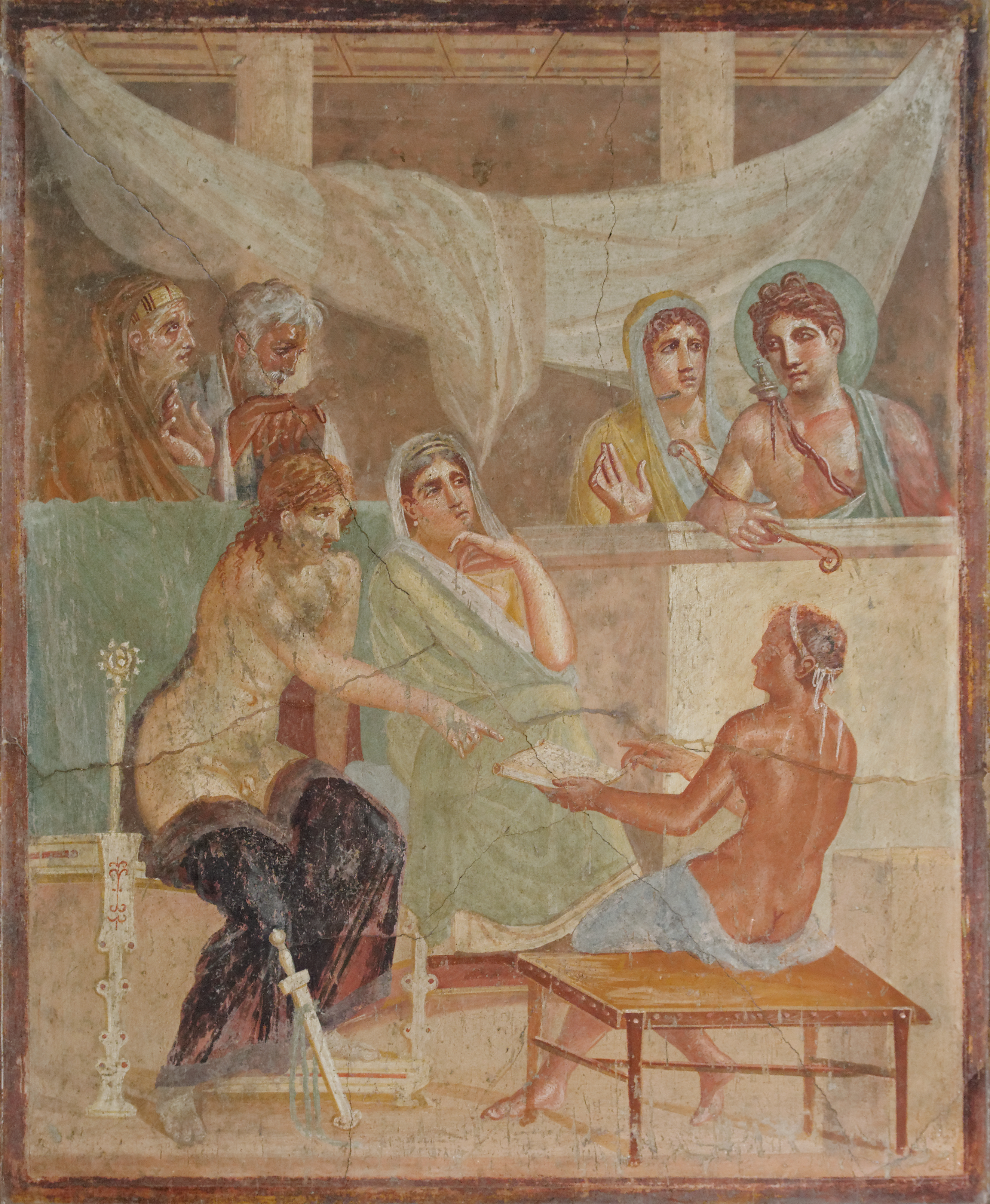 Admetus and Alcestis.